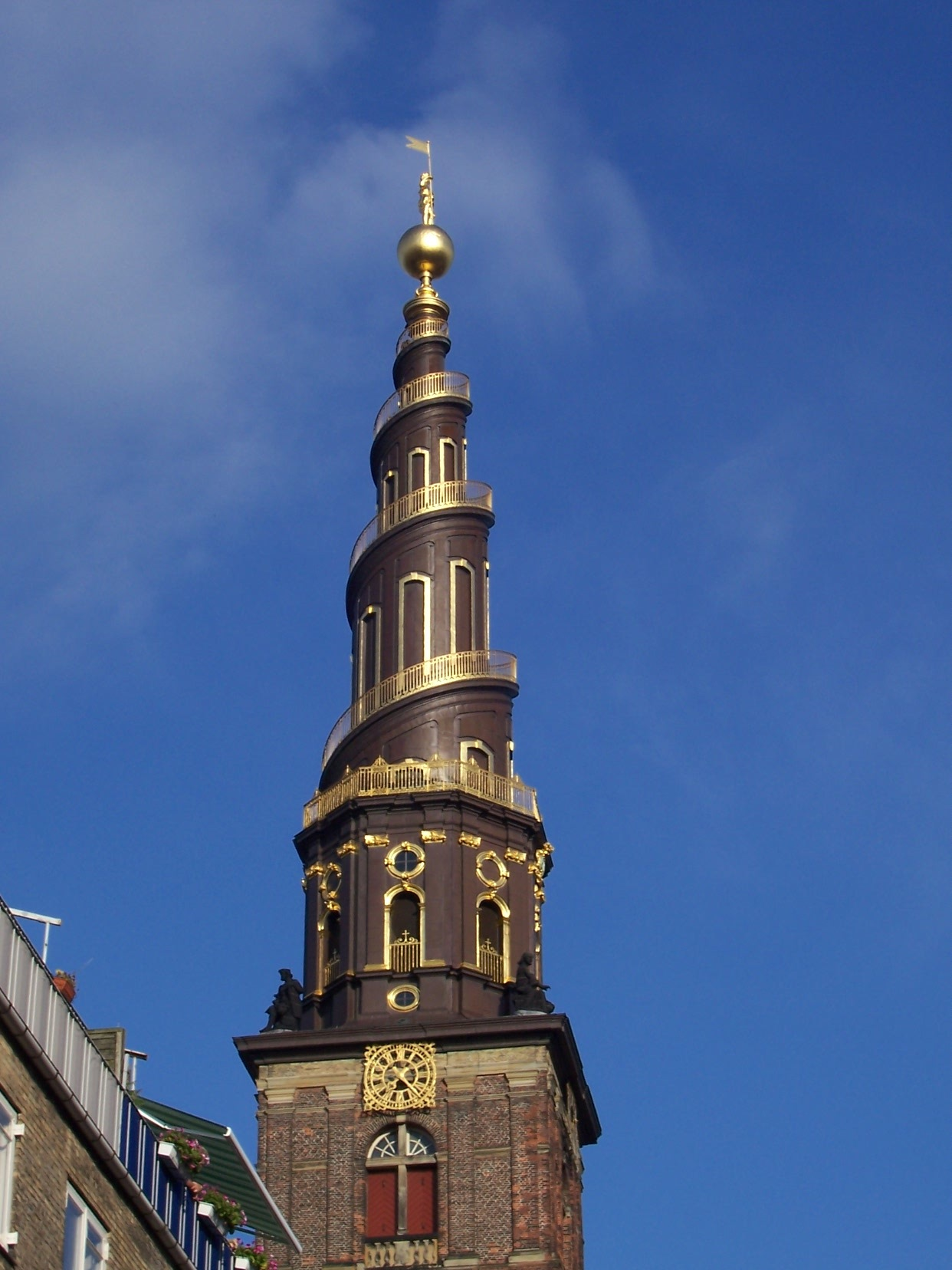 The corkscrew spire of Church of Our Saviour in Copenhagen, Denmark.